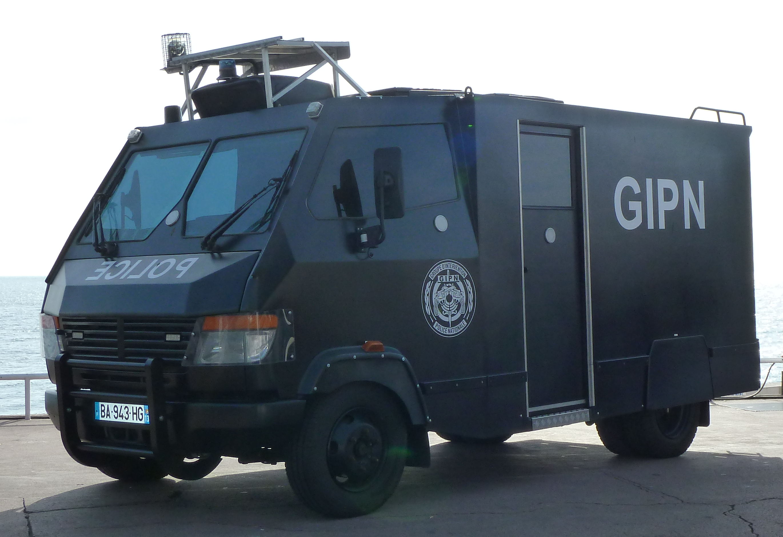 Armored vehicle of GIPN in Nice